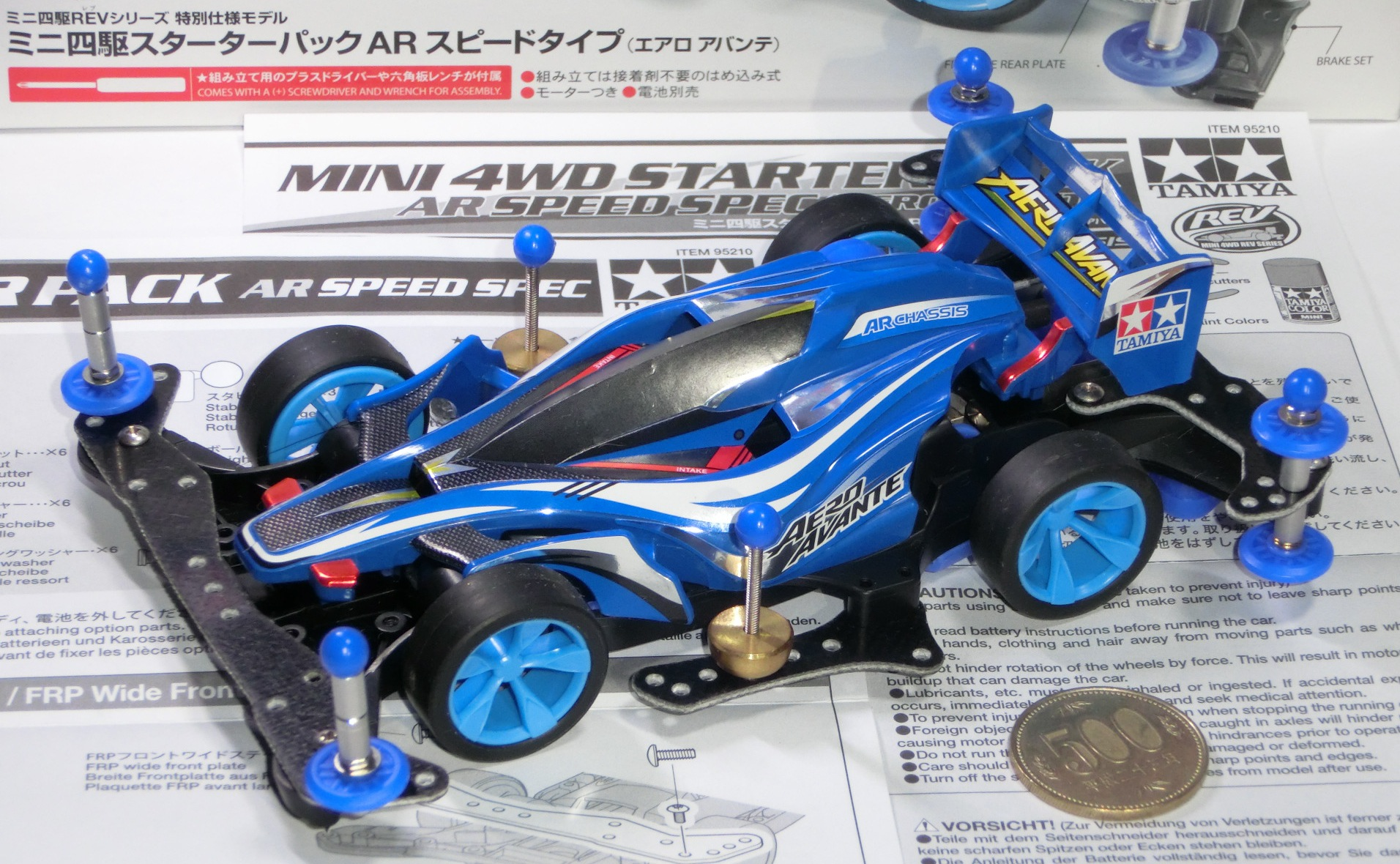 MINI 4WD STARTER PACK AR SPEED SPEC (AERO AVANTE)